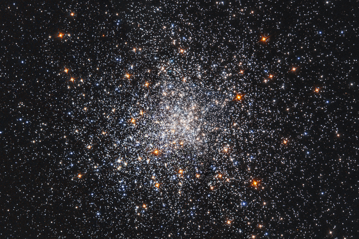 It’s beginning to look a lot like Christmas in this NASA/ESA Hubble Space Telescope image of a blizzard of stars, which resembles a swirling storm in a snow globe. These stars make up the globular cluster Messier 79, located about 40 000 light-years from Earth in the constellation of Lepus (The Hare). Globular clusters are gravitationally bound groupings of up to one million stars. These giant “star globes” contain some of the oldest stars in our galaxy. Messier 79 is no exception; it contains about 150 000 stars, packed into an area measuring just roughly 120 light-years across. This 11.7-billion-year-old star cluster was first discovered by French astronomer Pierre Méchain in 1780. Méchain reported the finding to his colleague Charles Messier, who included it in his catalogue of non-cometary objects: The Messier catalogue. About four years later, using a larger telescope than Messier’s, William Herschel was able to resolve the stars in Messier 79 and described it as a “globular star cluster.” In this sparkling Hubble image, Sun-like stars appear yellow-white and the reddish stars are bright giants that are in the final stages of their lives. Most of the blue stars sprinkled throughout the cluster are aging “helium-burning” stars, which have exhausted their hydrogen fuel and are now fusing helium in their cores.